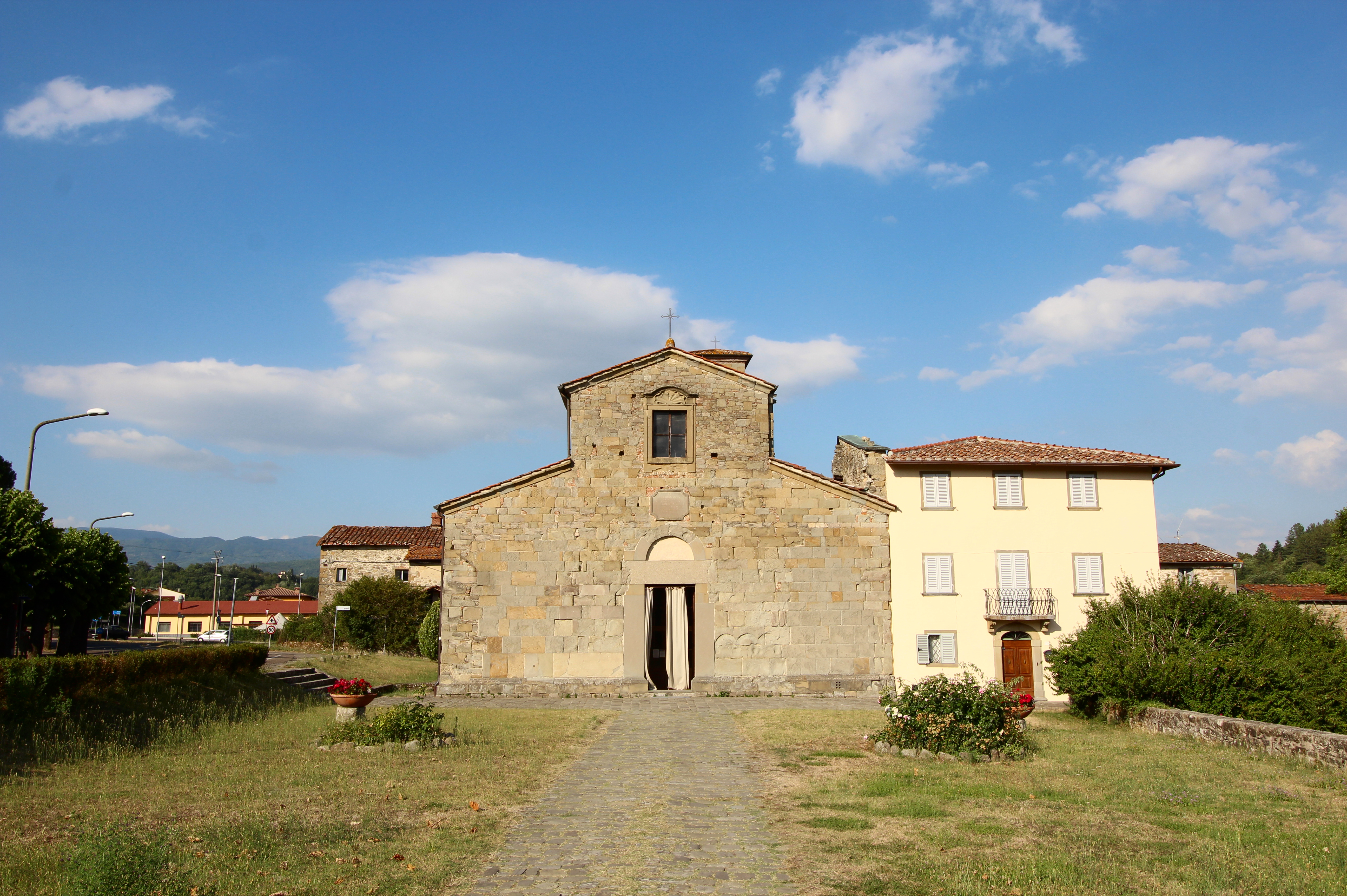 Church San Martino a Vado, Stada in Casentino, hamlet of Castel San Niccolò, Casentino, Province of Arezzo, Tuscany, Italy